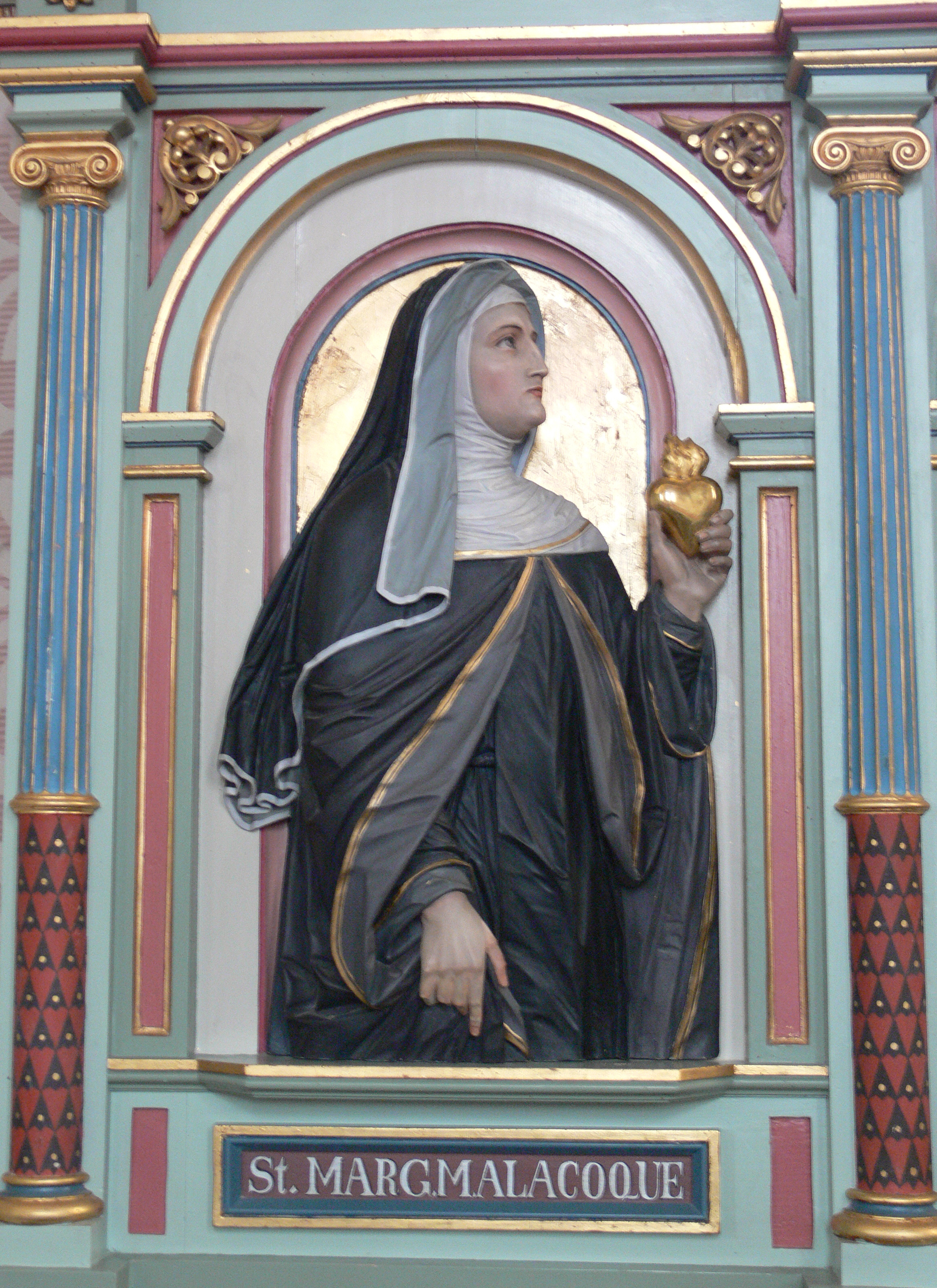 Margaret Mary Alacoque. Catholic parish church of St. Gordian and Epimachus, Merazhofen. Sculptor: Peter Paul Metz, 1896